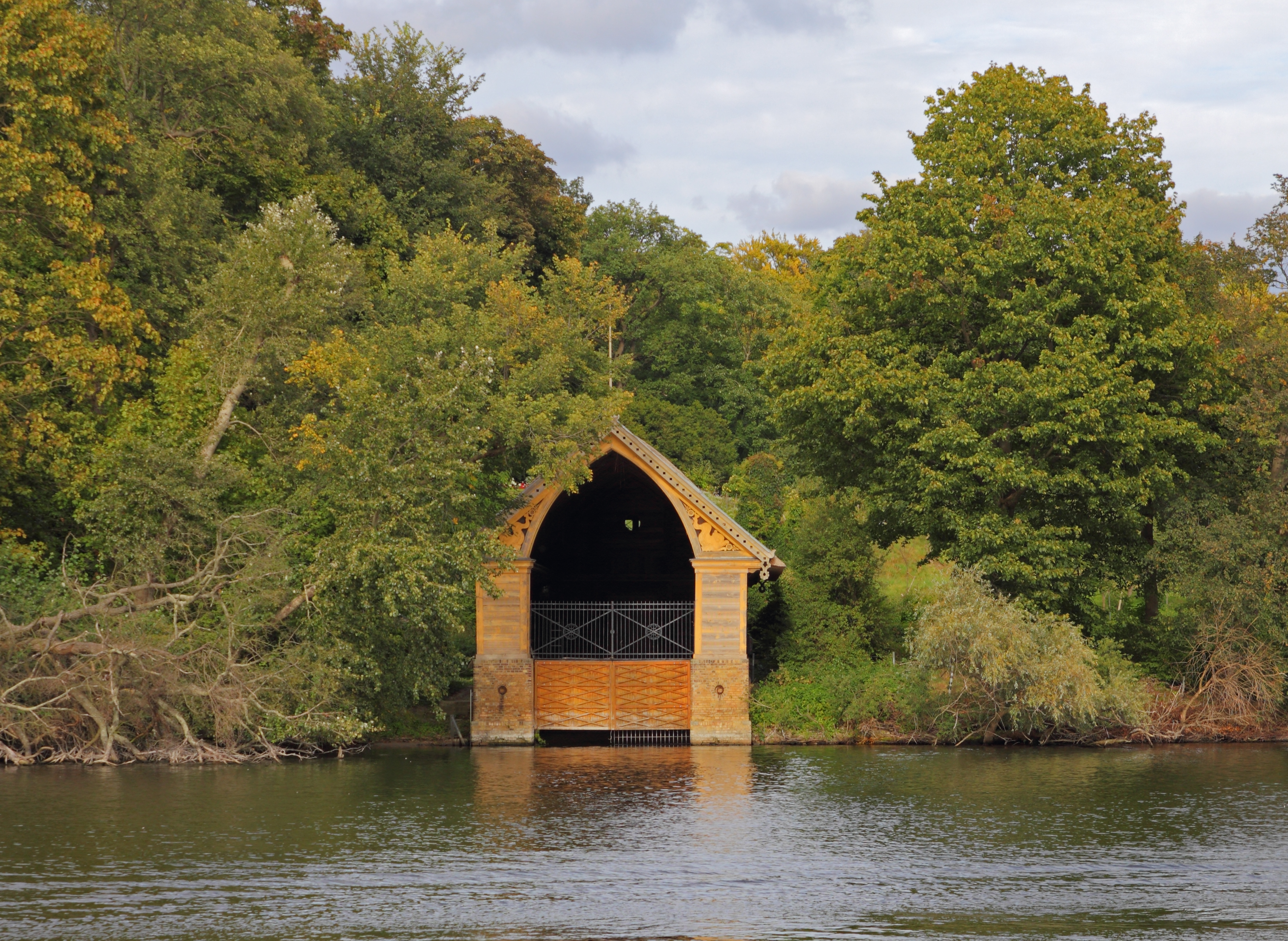 UNESCO World Heritage site „Peacock Island“ in Berlin-Wannsee. The Frigate Shelter.